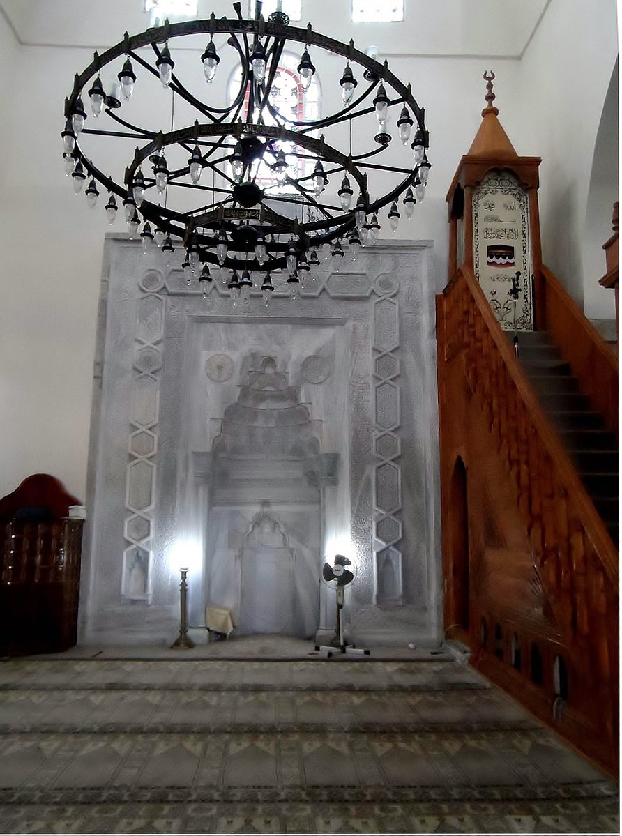 Alaaddin Mosque in Sinop, Tukey